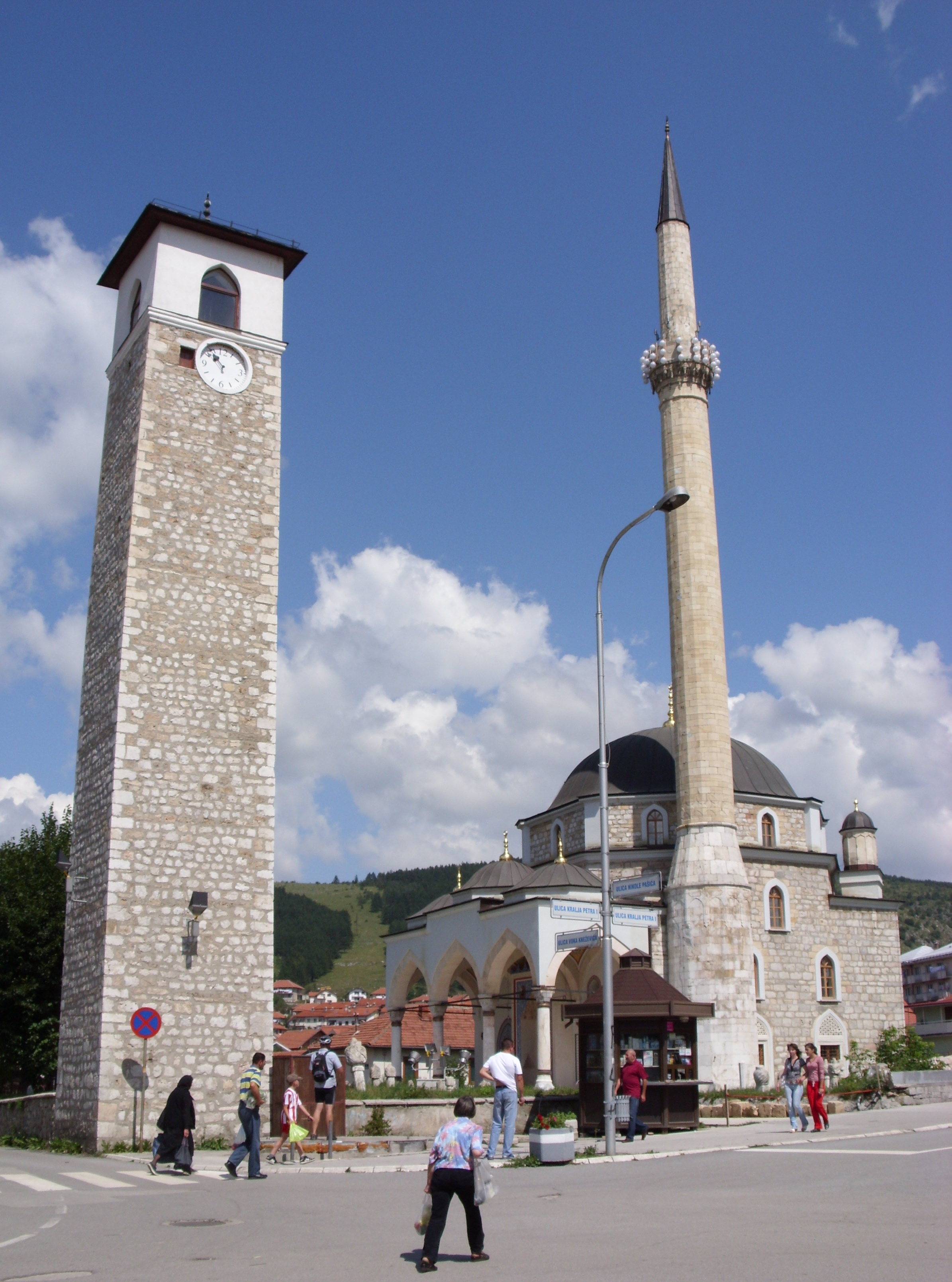 Mosque and clock tower in Pljevlja, Montenegro. Hornjoserbsce: Mošeja a časnikowa wěža w Pljevlje, Čorna Hora.